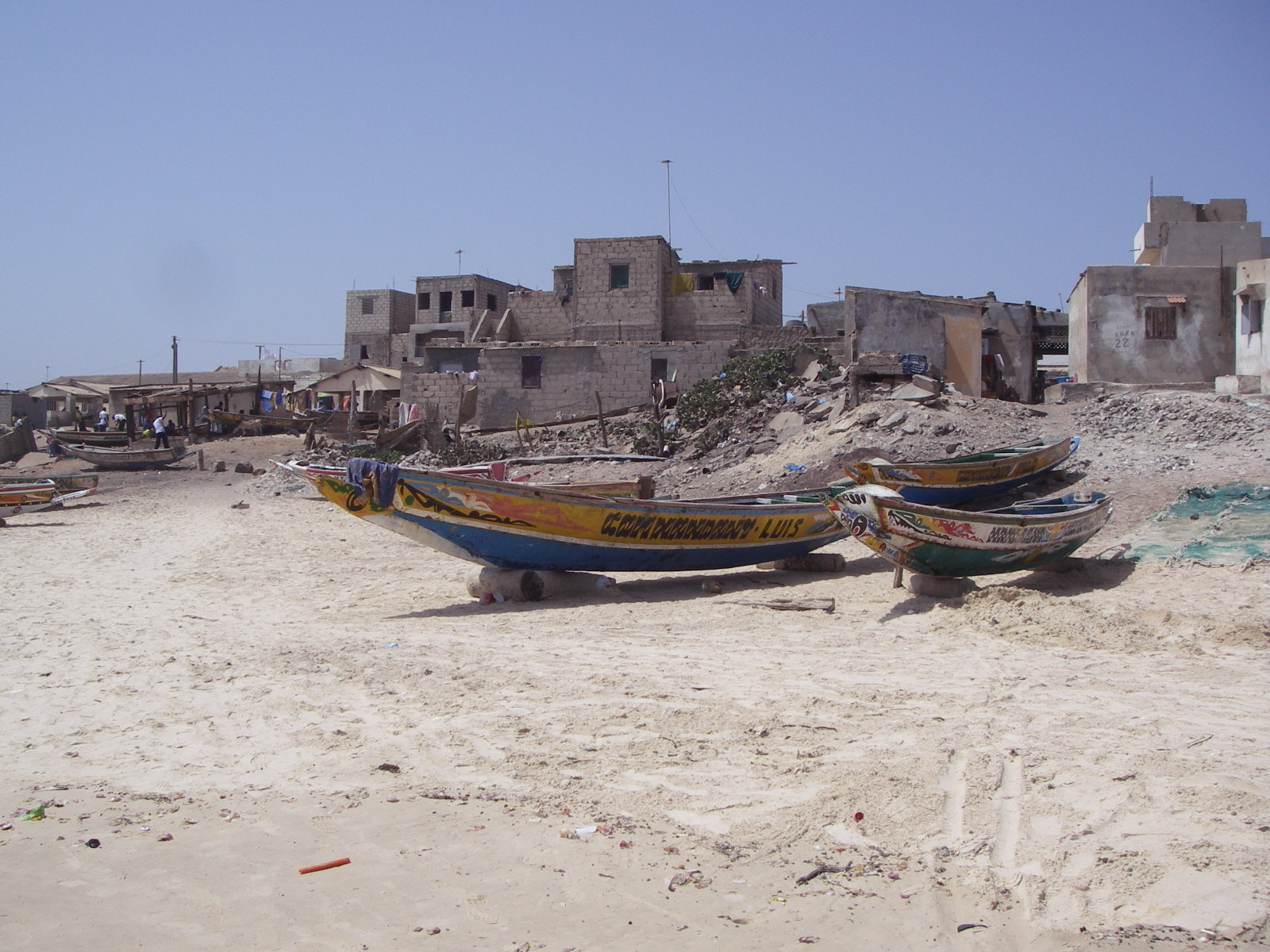 Fishing boats on a beach in Yoff, Senegal with buildings and the city background. Viewed facing away from the ocean.